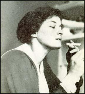 Enid Bagnold (1889-1981) "in her early twenties"